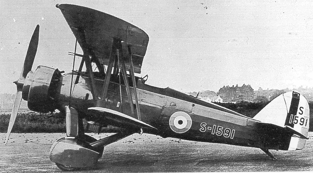 Armstrong Whitworth XVI first prototype S1591 with double Townend ring cowling